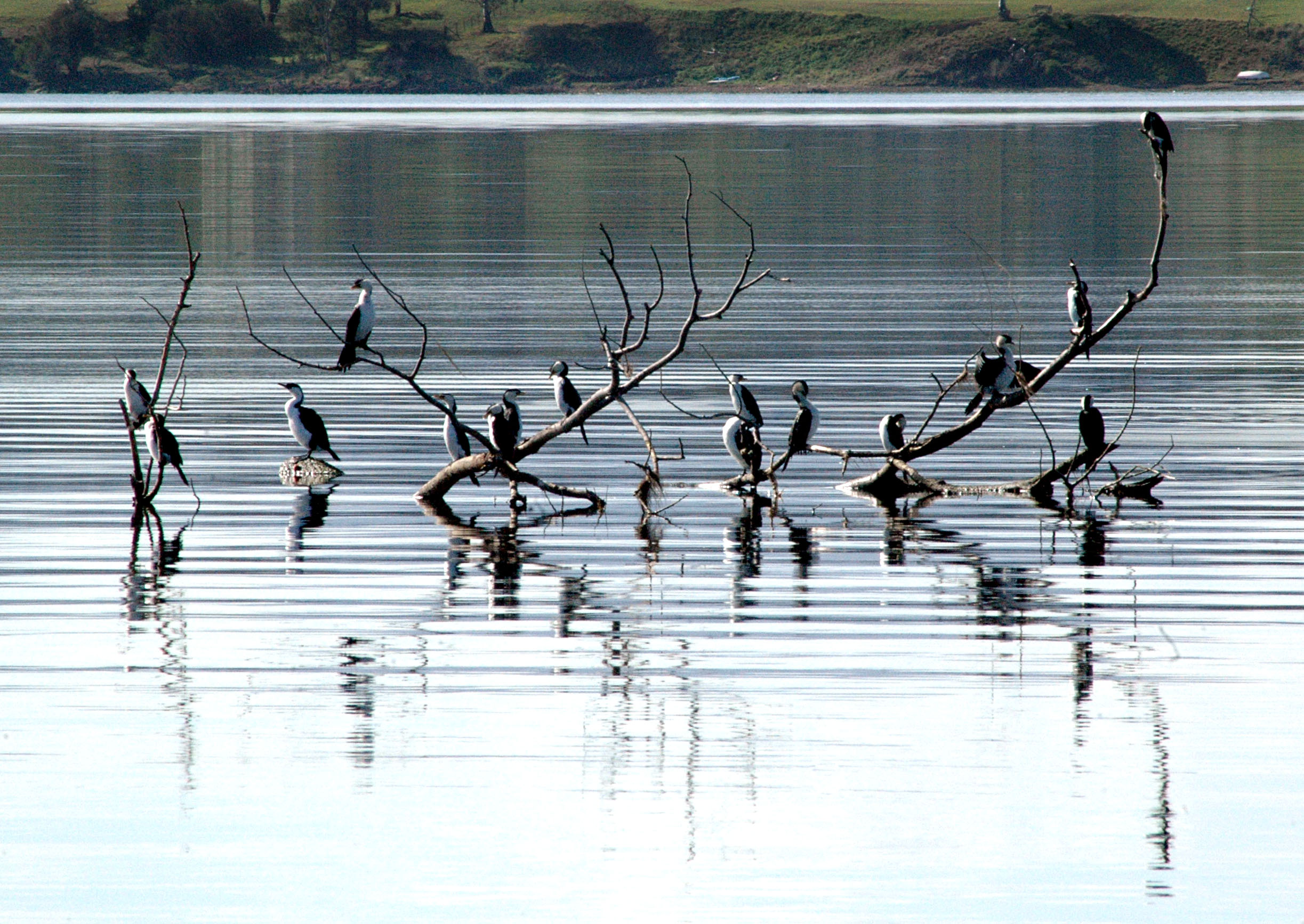 Little Pied Cormorants (Phalacrocorax melanoleucos) perching on a snag in the Derwent River, just north of Hobart, Tasmania.